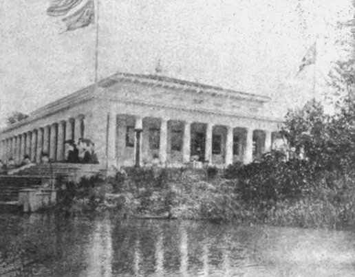 The Ohio Building at the 1901 Pan-American Exposition. Cleveland architect John Eisenmann designed both this building and the flag that flew above it, which is now the Ohio state flag.